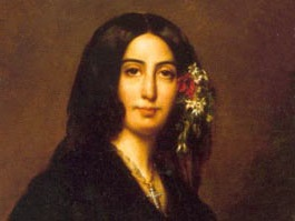 Portrait of George Sand (detail)